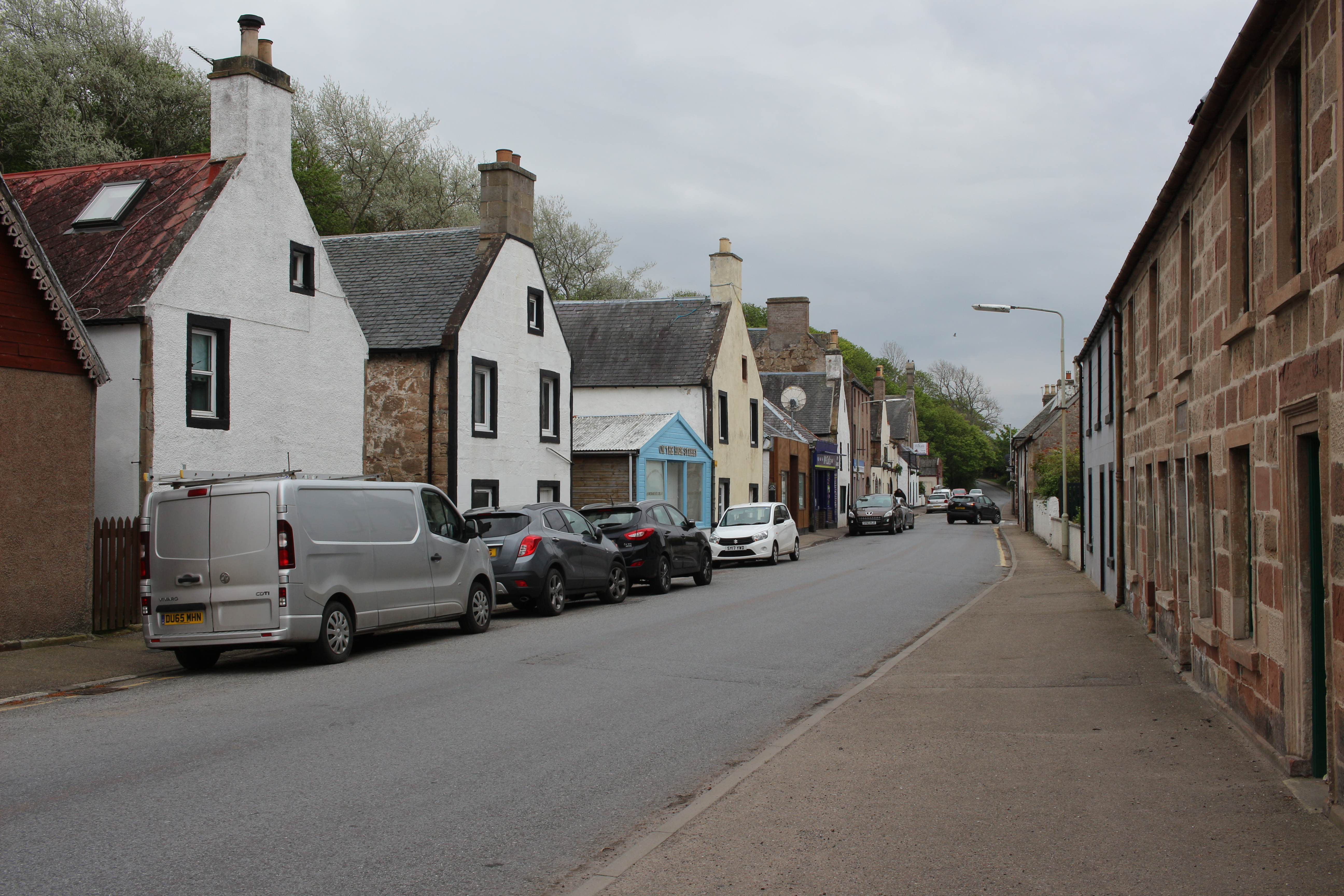 High Street in Ardersier in 2019.